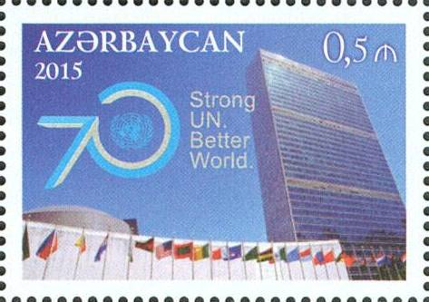 The 70th Anniversary of the United Nations. N 1231 - 50 qapik – There are pictured the headquarters of the UN in New York and special logo dedicated to the 70th Ann. of the UN on the stamp.